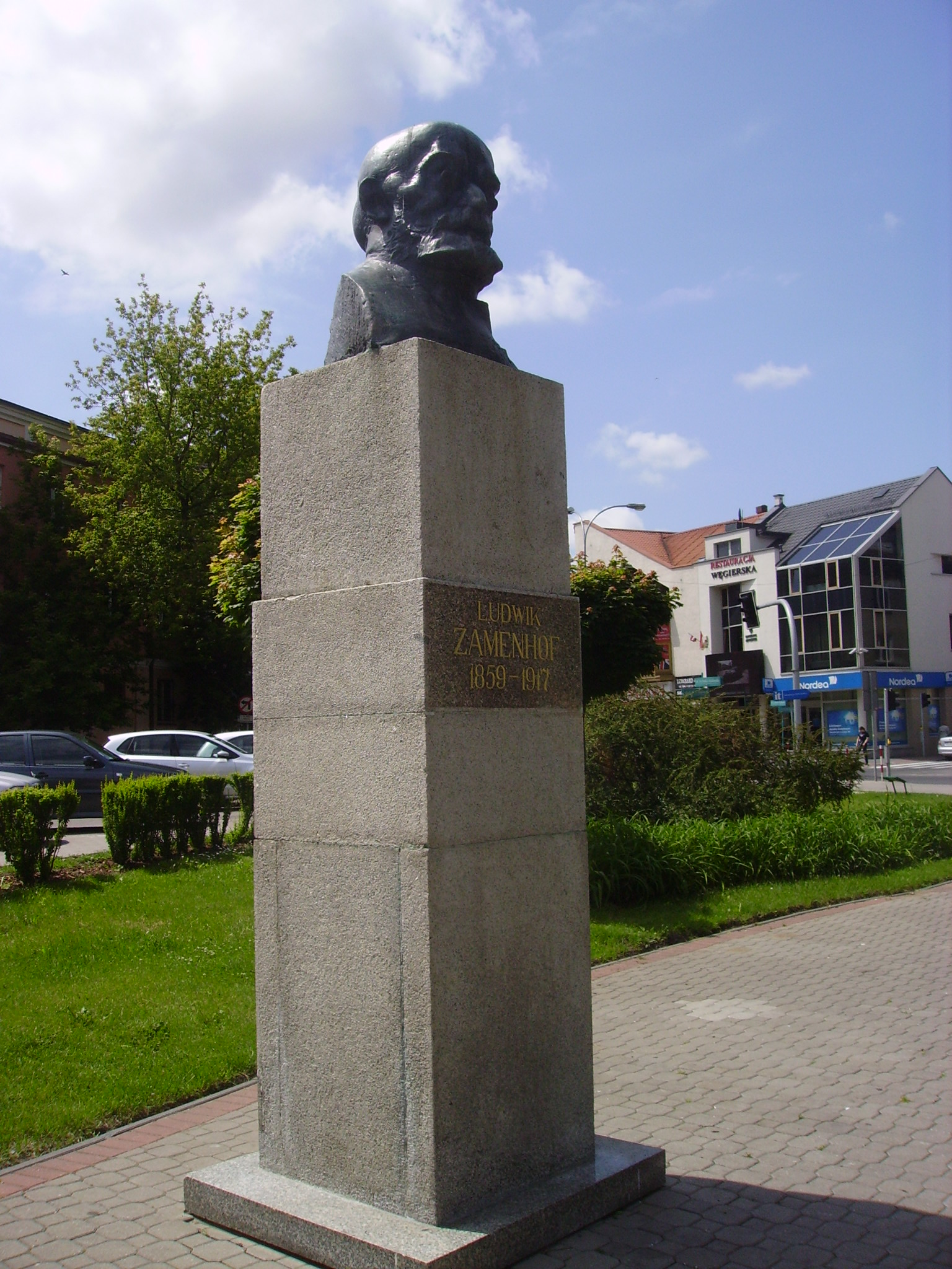 Bust Ludwik Zamenhof of Białystok (Poland).